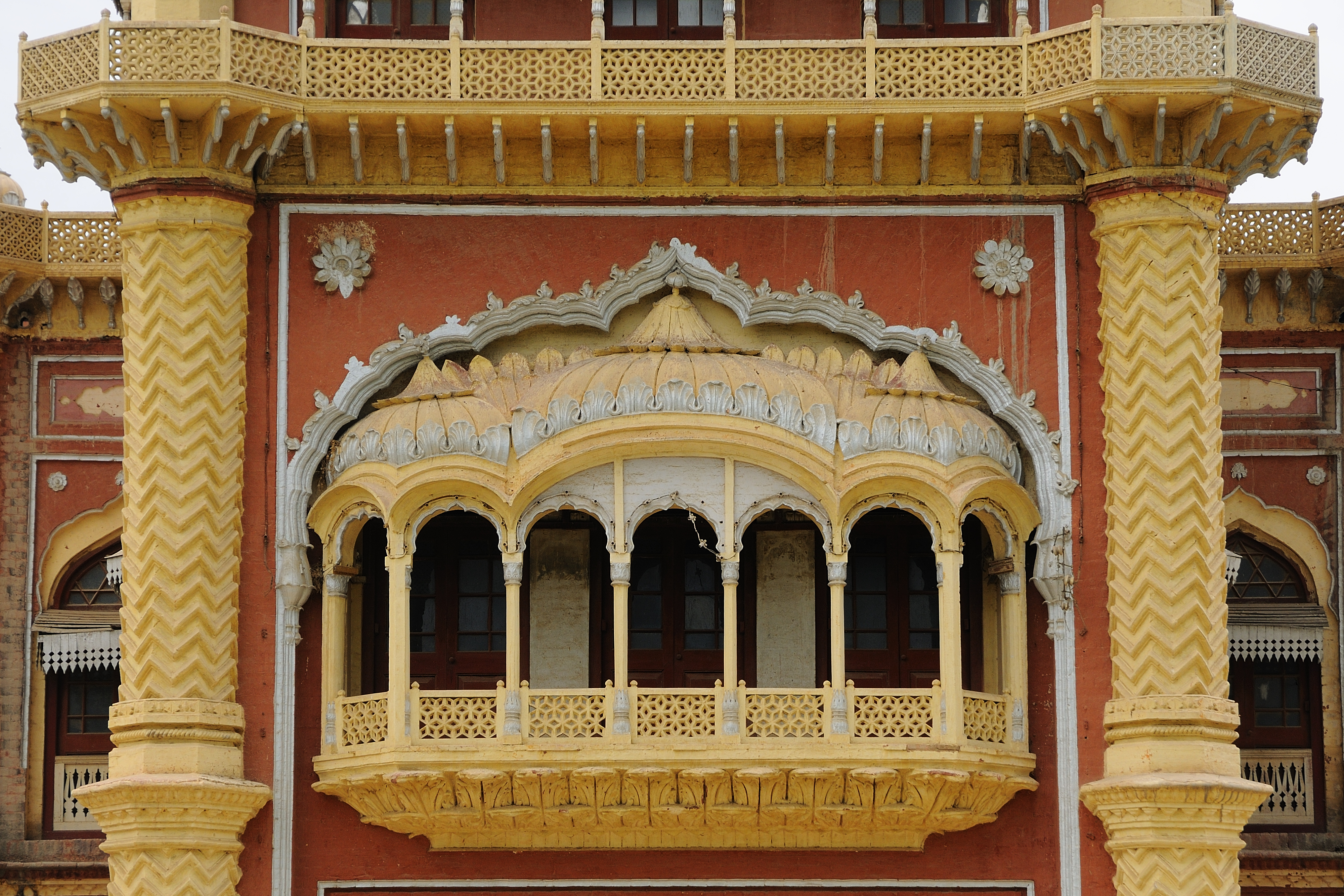 Faiz Mahal This is a photo of a monument in Pakistan identified as the SD-P-6